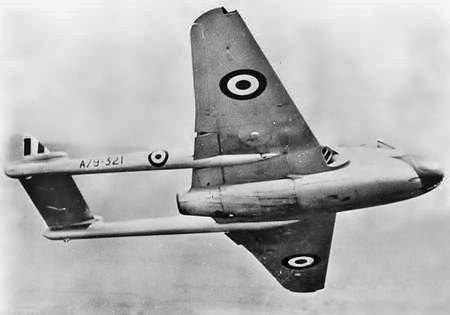 Williamtown, NSW. A D.H. Vampire aircraft, F-MR30 (Australia) A79-321 of No. 2 (F) Operational Conversion Unit, RAAF, in flight.